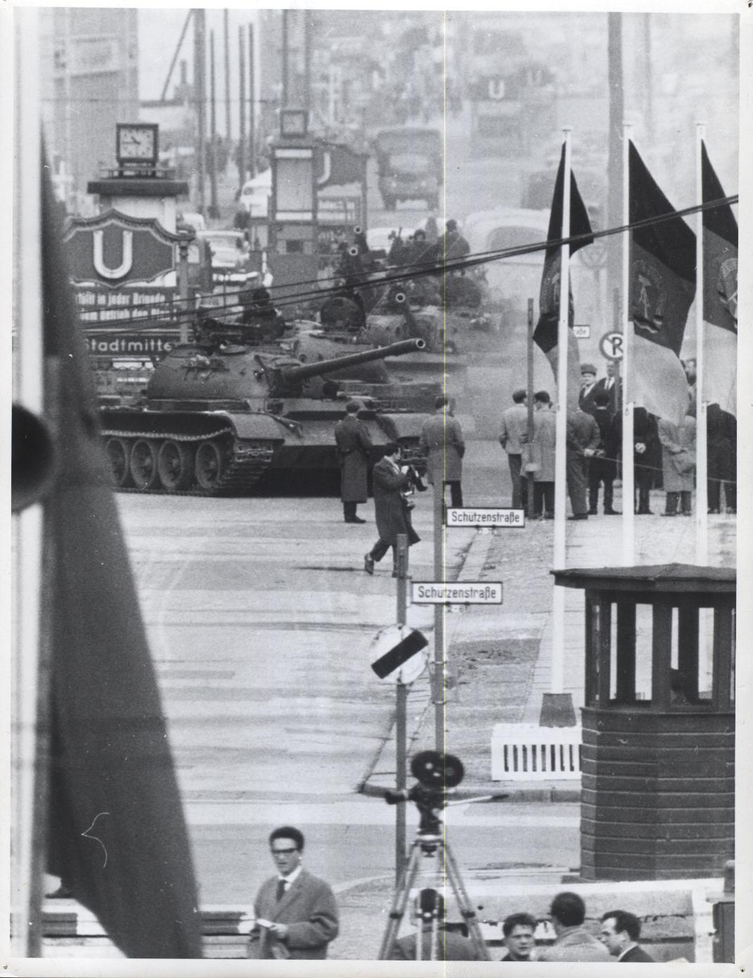 Oct. 27, 1961. During the confrontation at Checkpoint Charlie, Soviet T-4 tanks move to the border at Friedrichstrasse. From the booklet "A City Torn Apart: Building of the Berlin Wall." For more information, visit CIA's Historical Collections webpage (